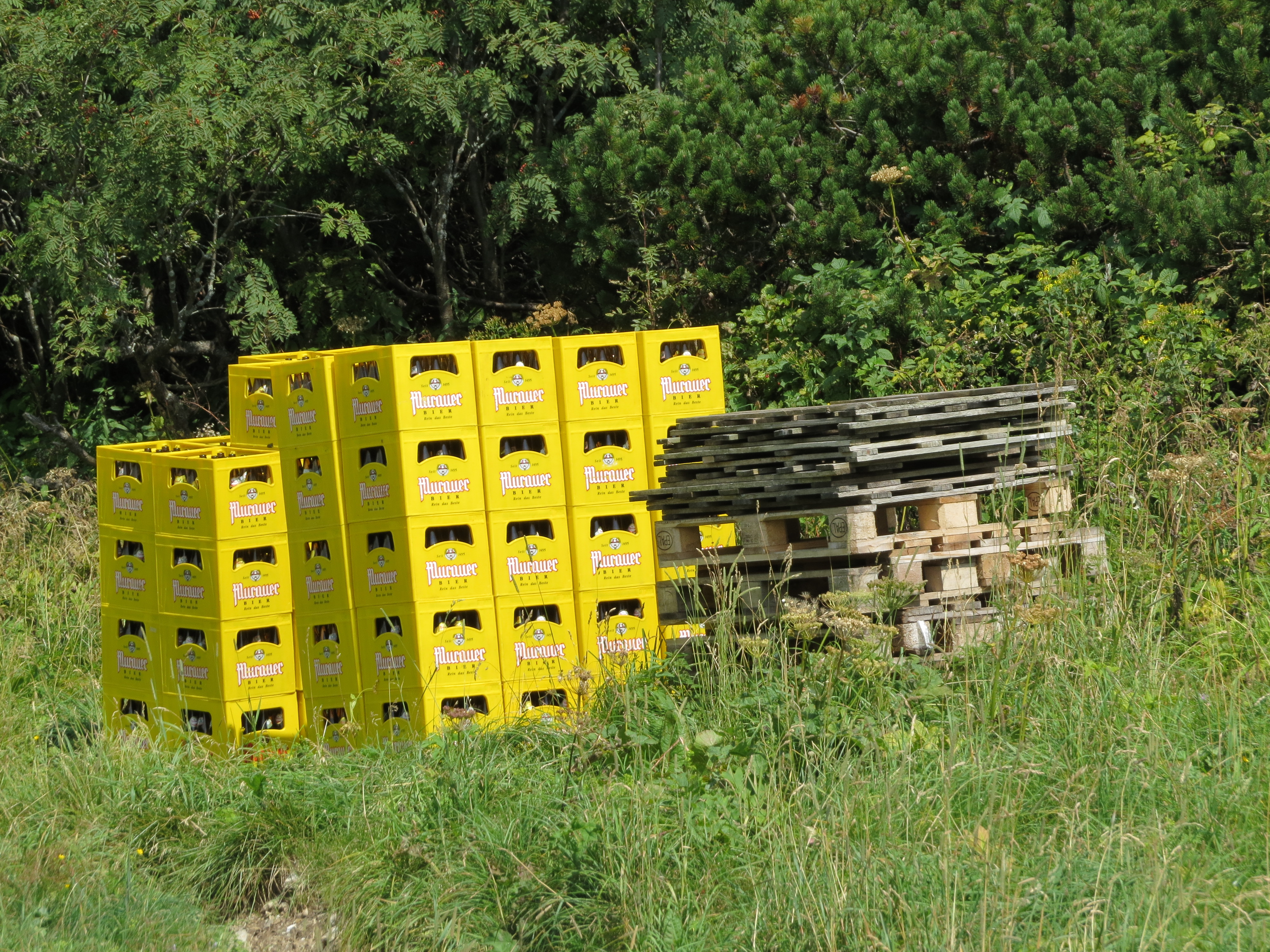 Murauer Beer crates and transport pallet piles at Seehütte at Rax, Austria